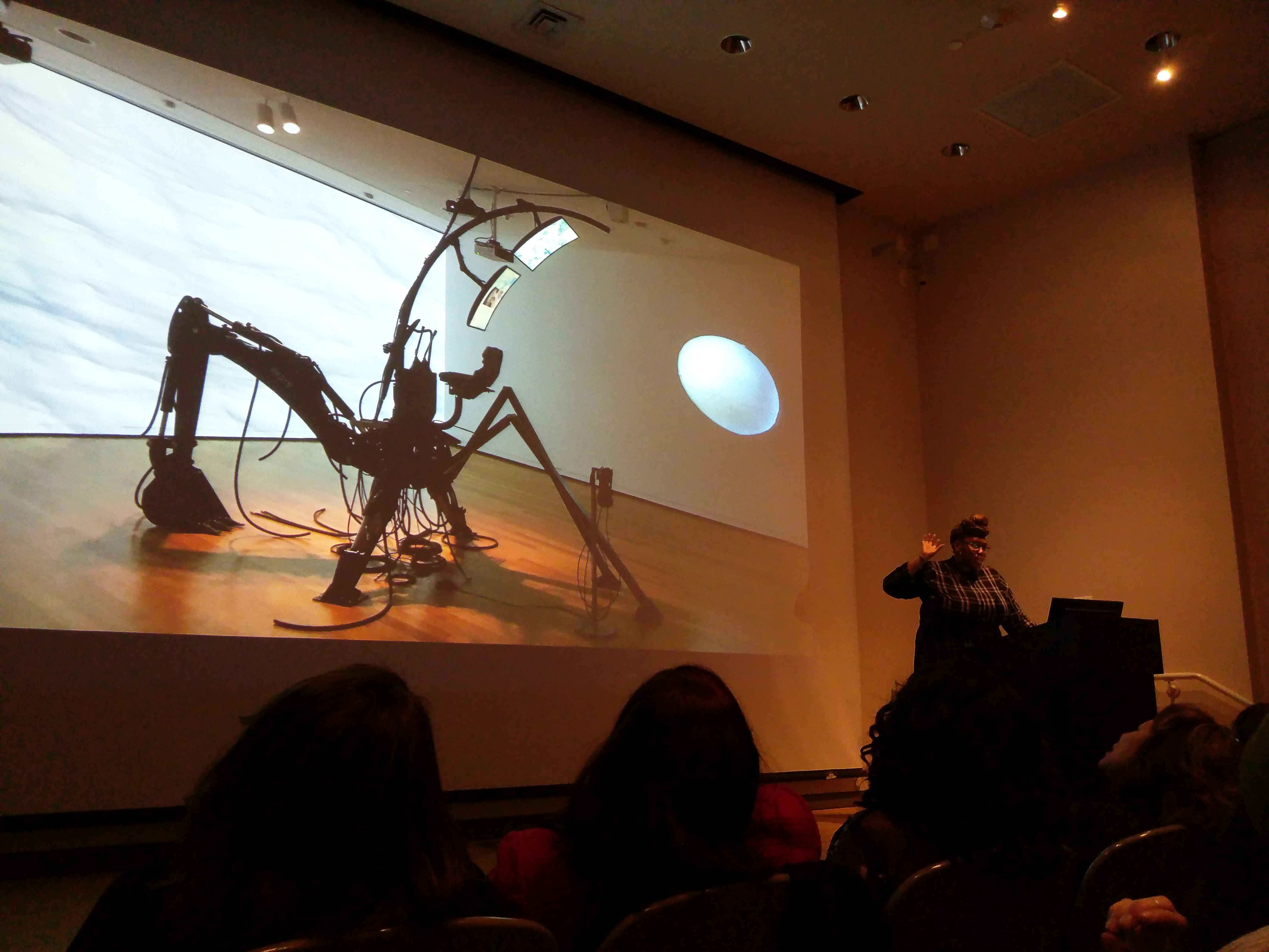 Artist Sondra Perry lectures on her work at the Seattle Art Museum in 2017 for her exhibition Eclogue For Inhabitability.